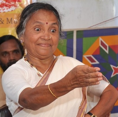 Chavara parukutty,the first woman Kathakali artist Chavara parukutty, first woman Kathakali artist from Kerala